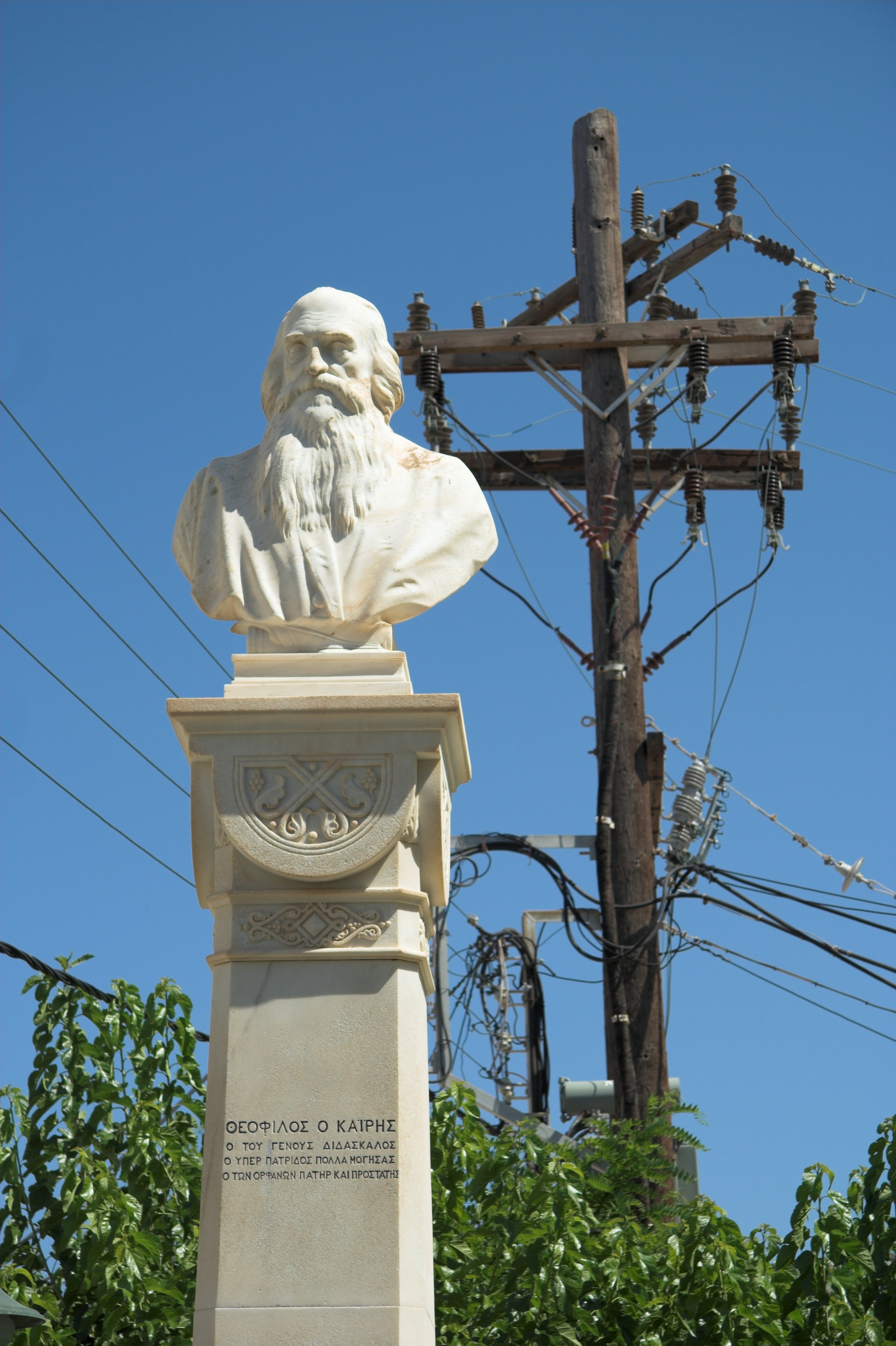 Andrian philosopher, teacher and national revivalist Theofilos Kairis (Kairés), 1784 to 1853.